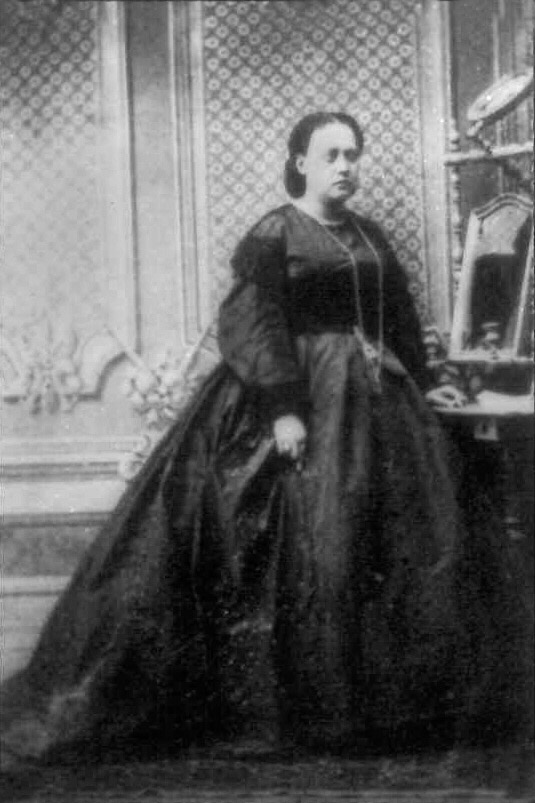 Helena Petrovna Blavatsky (1831-1891)